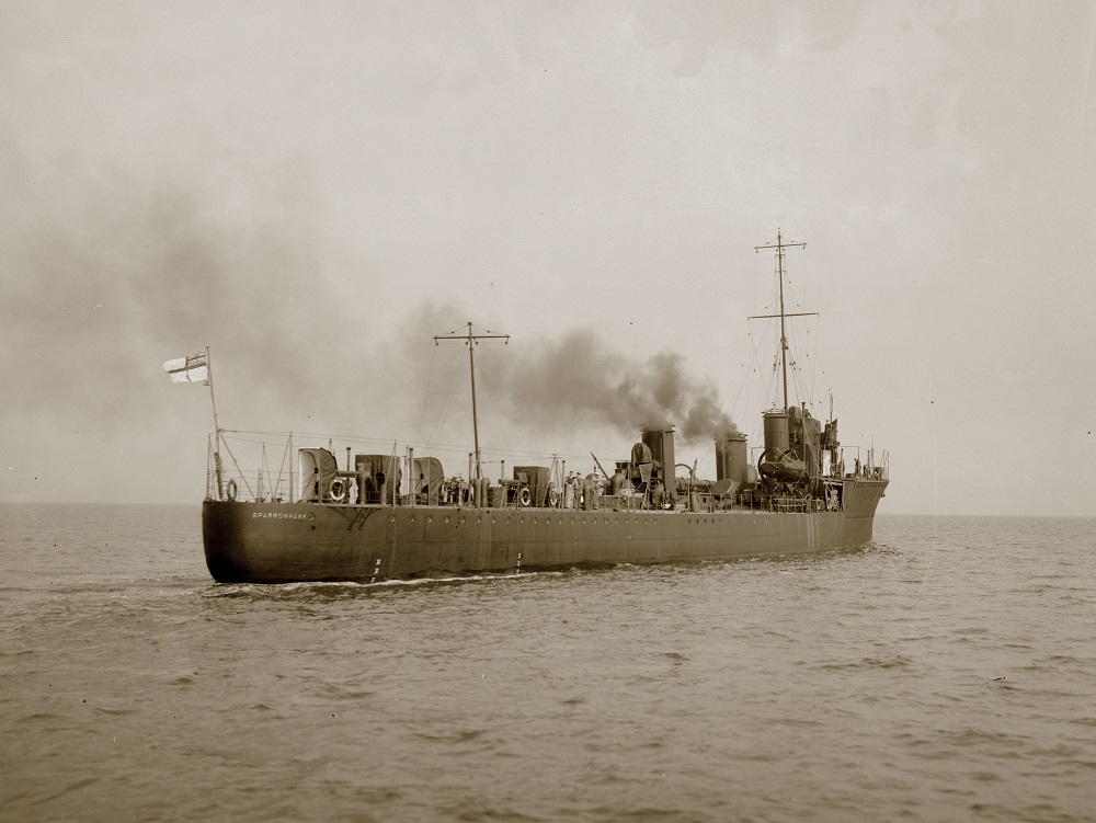 View of HMS Sparrowhawk at sea